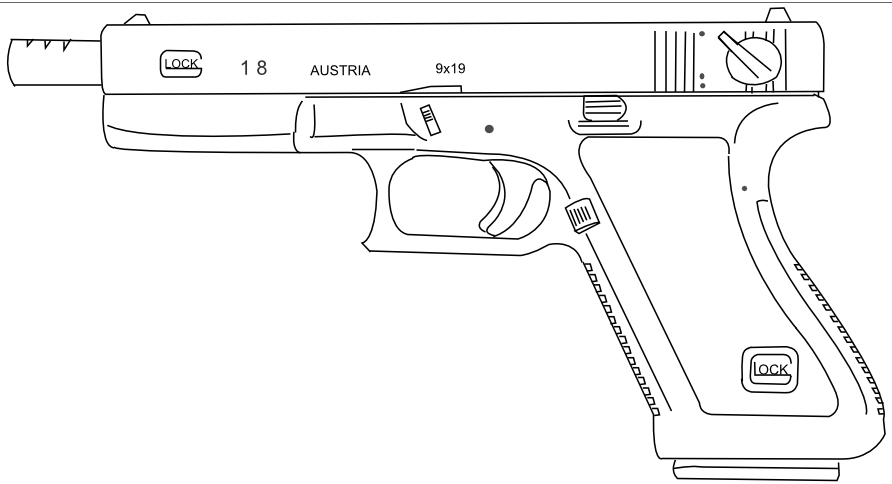 Automatic pistol Glock 18C